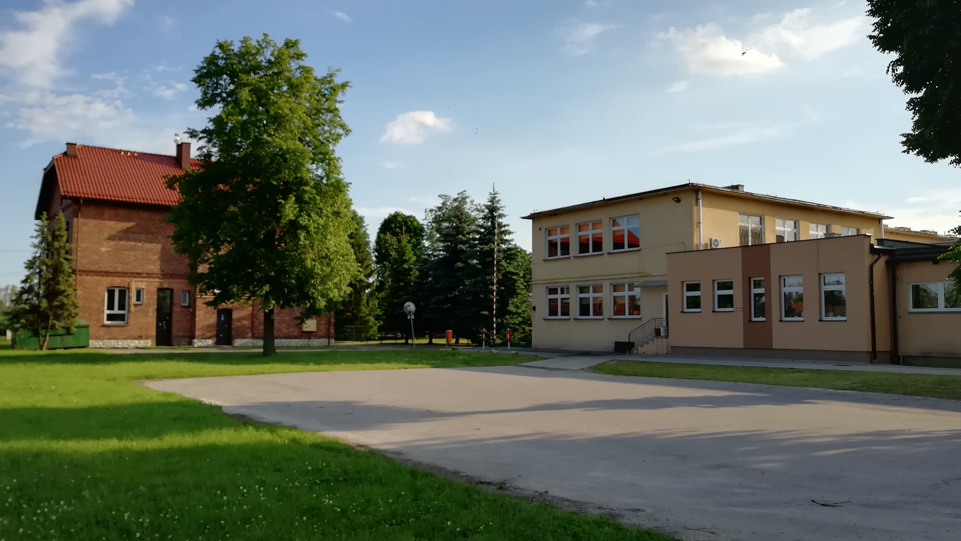 Primary school in Gorzów